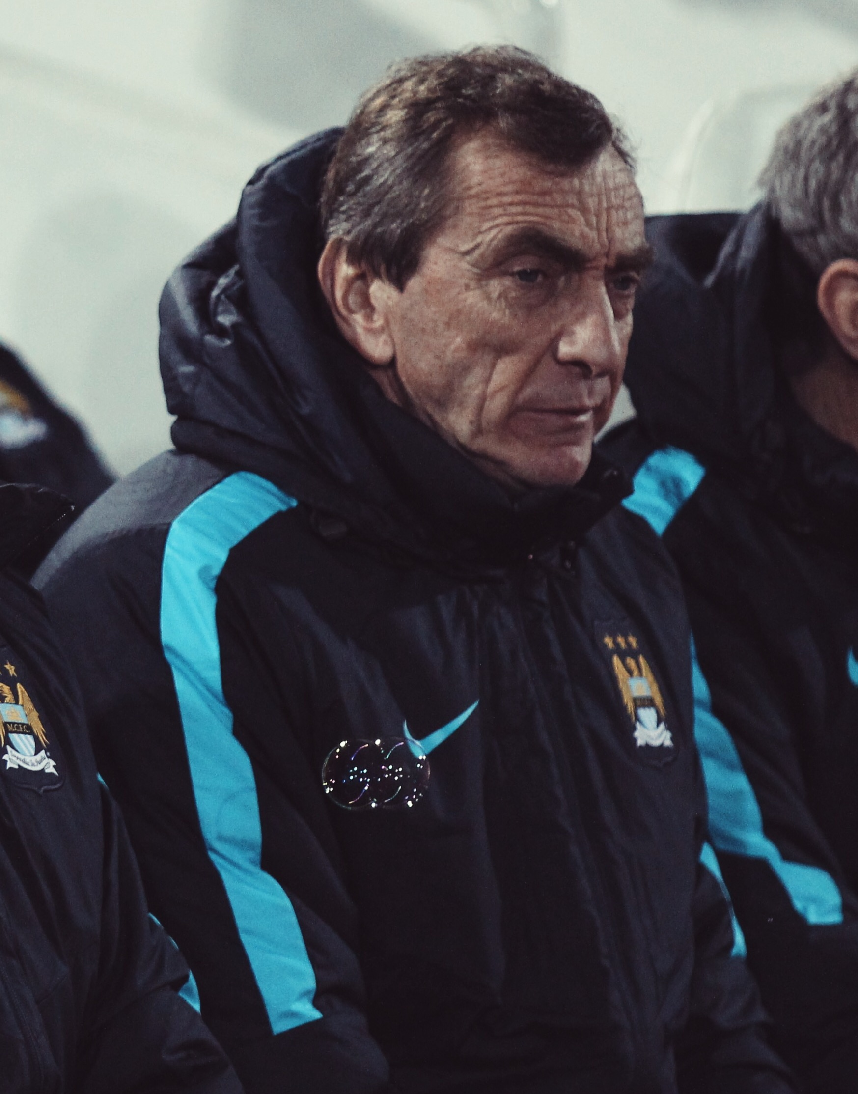 Manchester City manager Manuel Pellegrini before the game against West Ham.